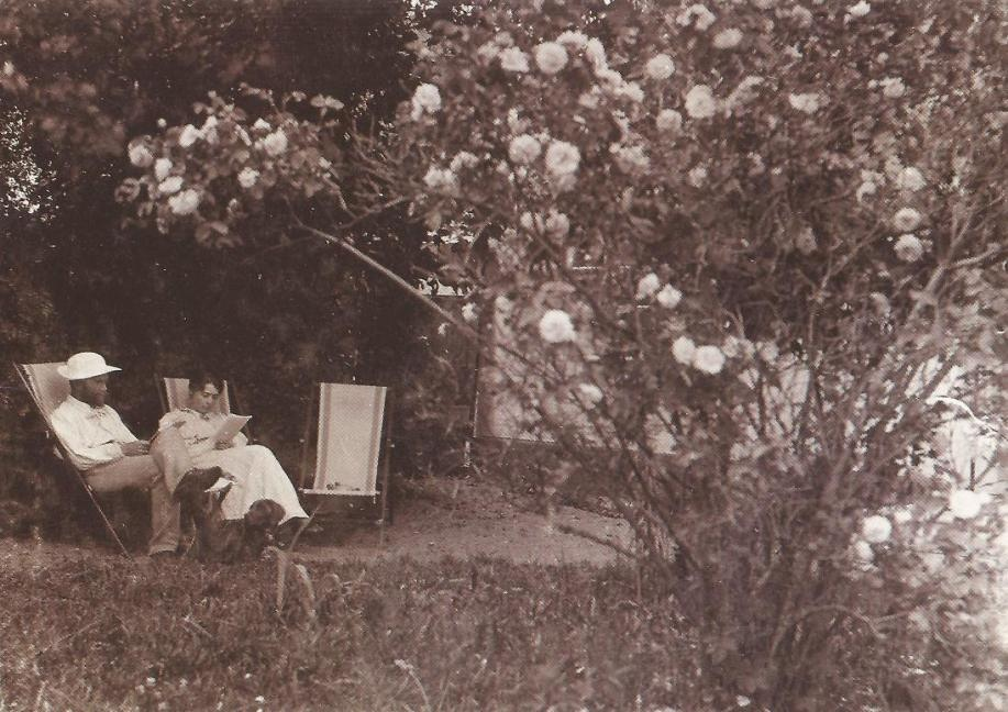 Mary reading in the garden